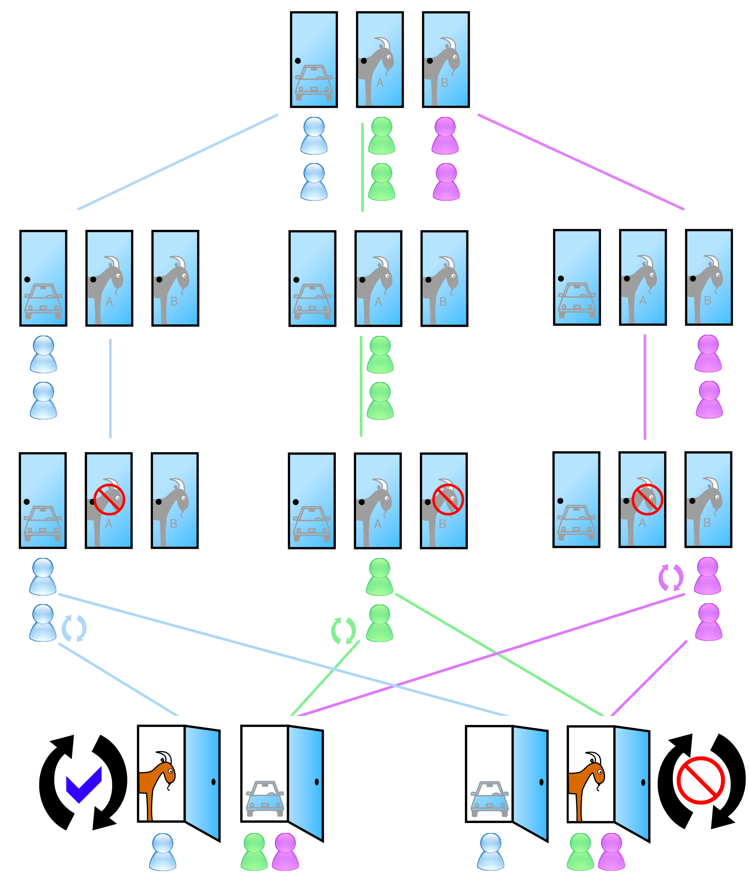 Monty hall solution expanded - second version Shows six possible solutions as six people. Swapping gives two wins to one loss on average. Keeping gives two losses to one win on average. See also: and